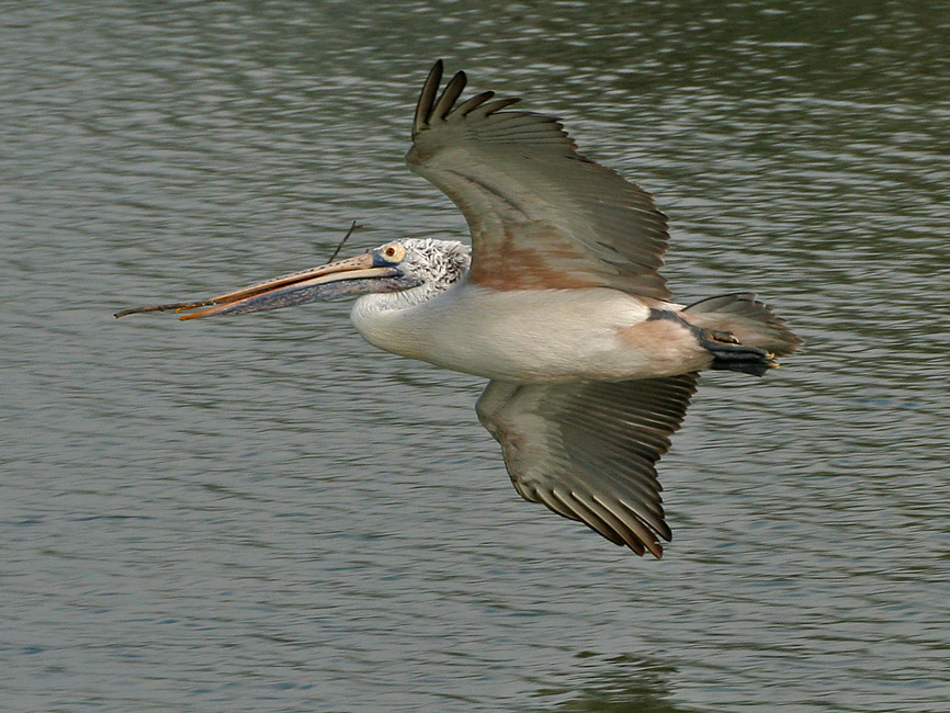 Spot-billed Pelican Pelecanus philippensis in Uppalapadu, Andhra Pradesh, India.